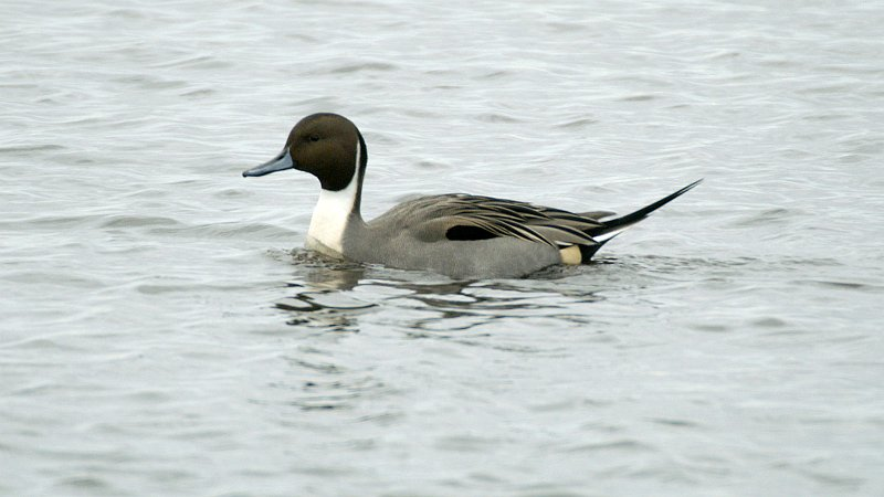 Northern Pintail (Anas acuta) This image was created by Ken Billington. If you are interested in a high resolution copy of this image, please contact the author Ken Billington in order to negotiate conditions of use. Do not copy this image illegally by ignoring the terms of the license below, as it is not in the public domain. If you would like special permission to use, license, or purchase the image please contact me to negotiate terms. More free images can be found on Ken Billington's Bird & Wildlife Photography.